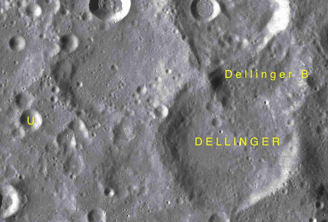 Part of the chart LAC-84 used for the presentation